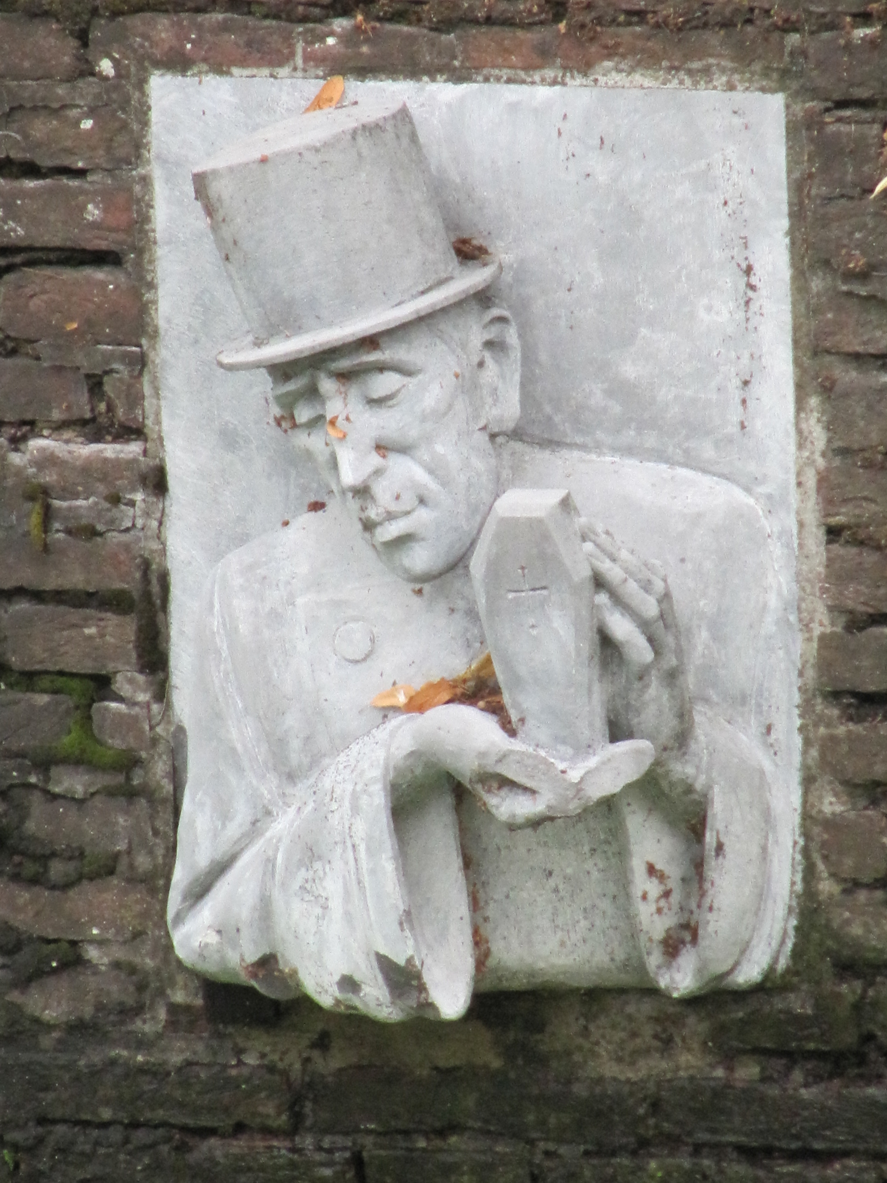 Waterspout by Dutch sculptor Ton Mooy on the Grote Spui in Amersfoort, the Netherlands: undertaker, refering to an undertaker who had his business nearby. Namur bluestone (Calcaire de Vinalmont)